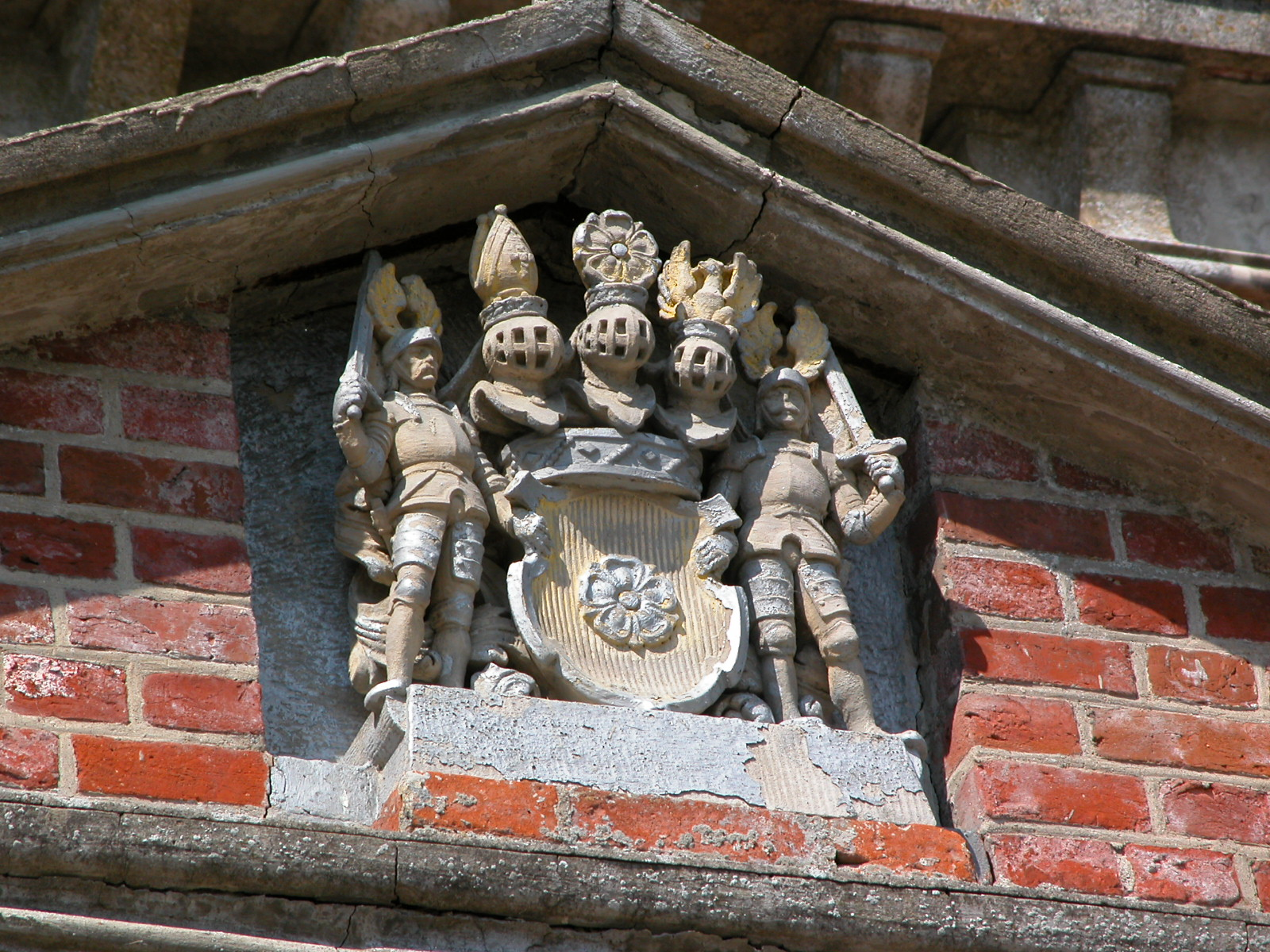 Klecewo herb Rosenbergów